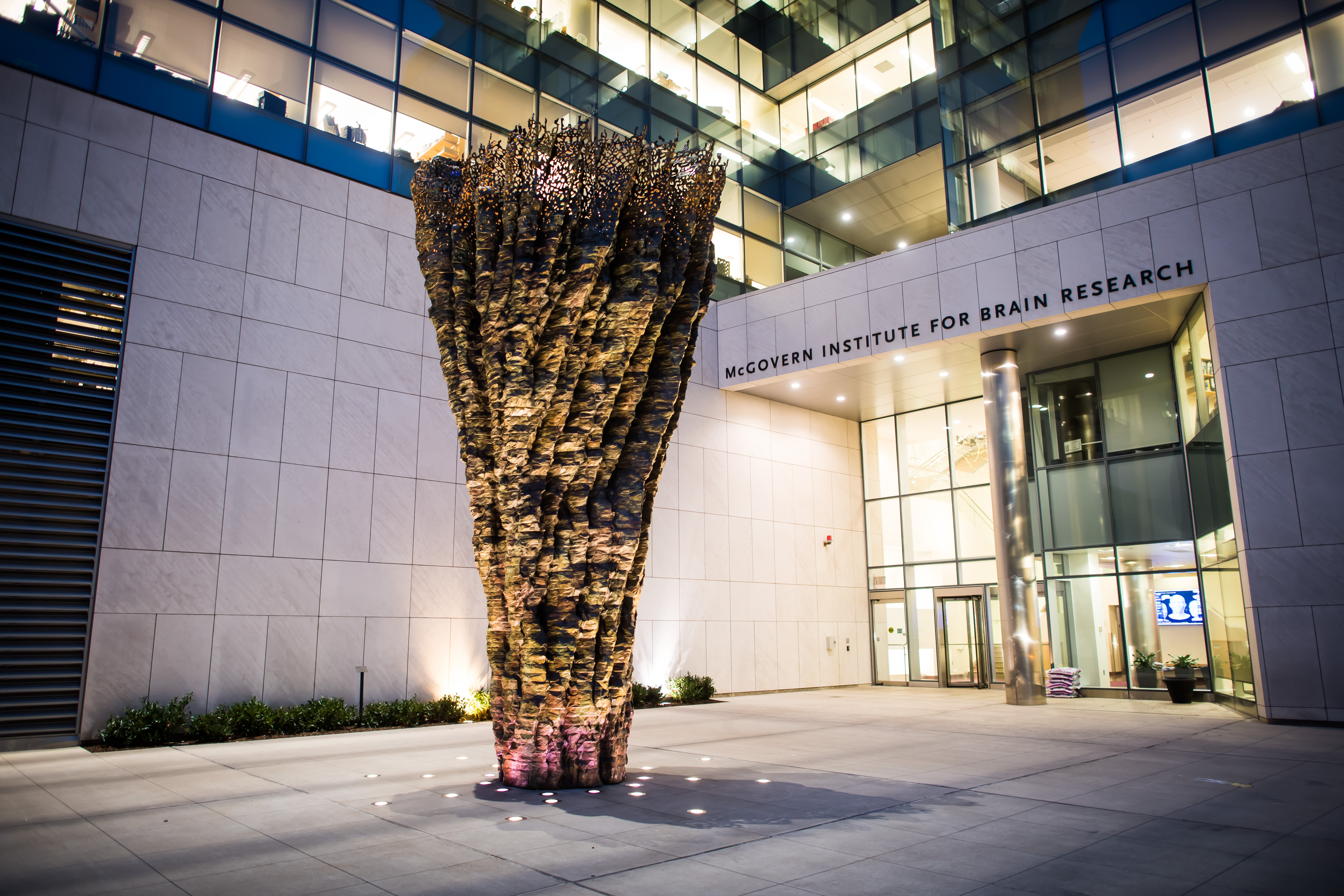 McGovern Institute for Brain Research Entrance with SCIENTIA Sculpture, taken in December 2018.